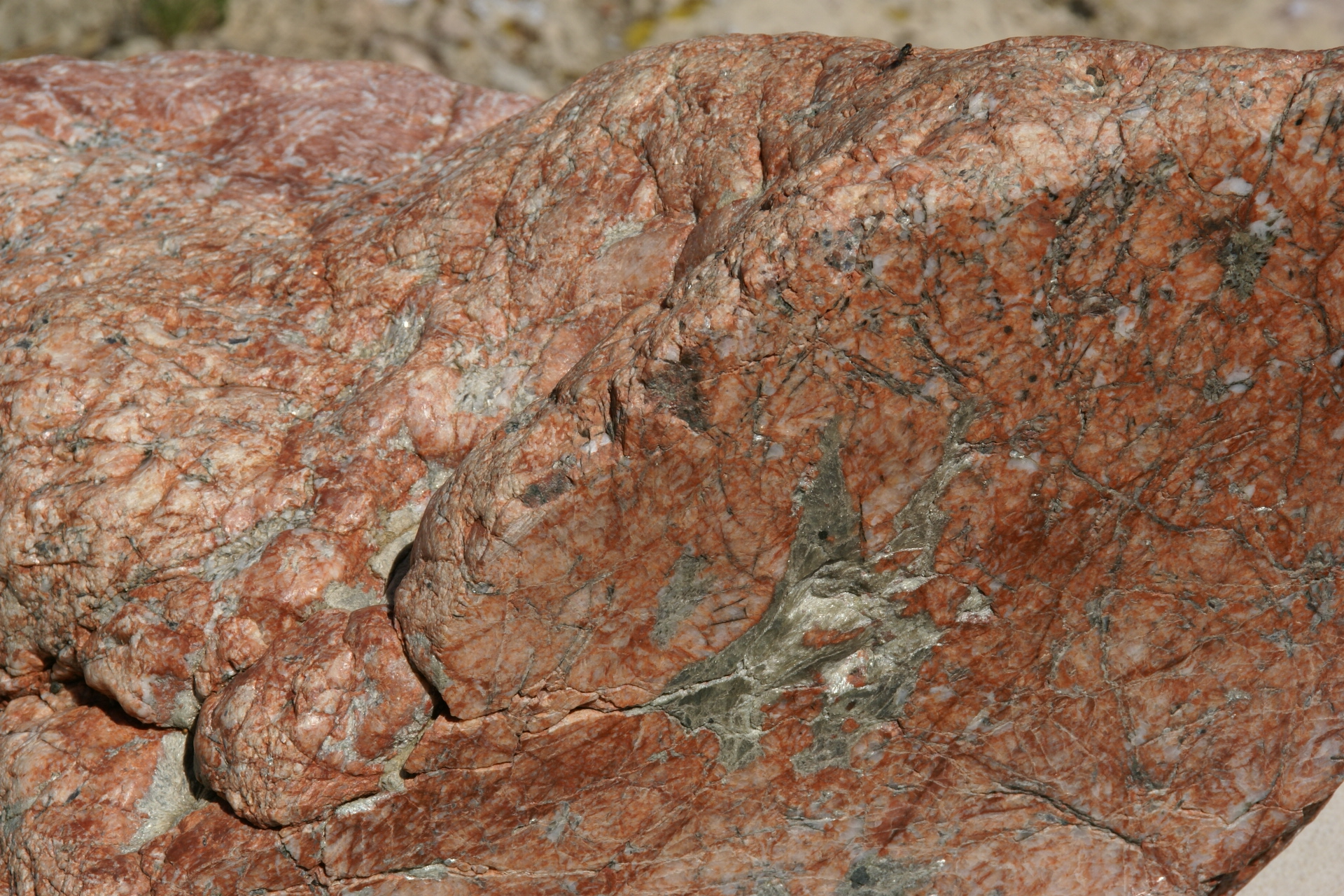 Cremation pegmatite exhibit at Trail of Time near Yavapai Point, Grand Canyon, Arizona, USA